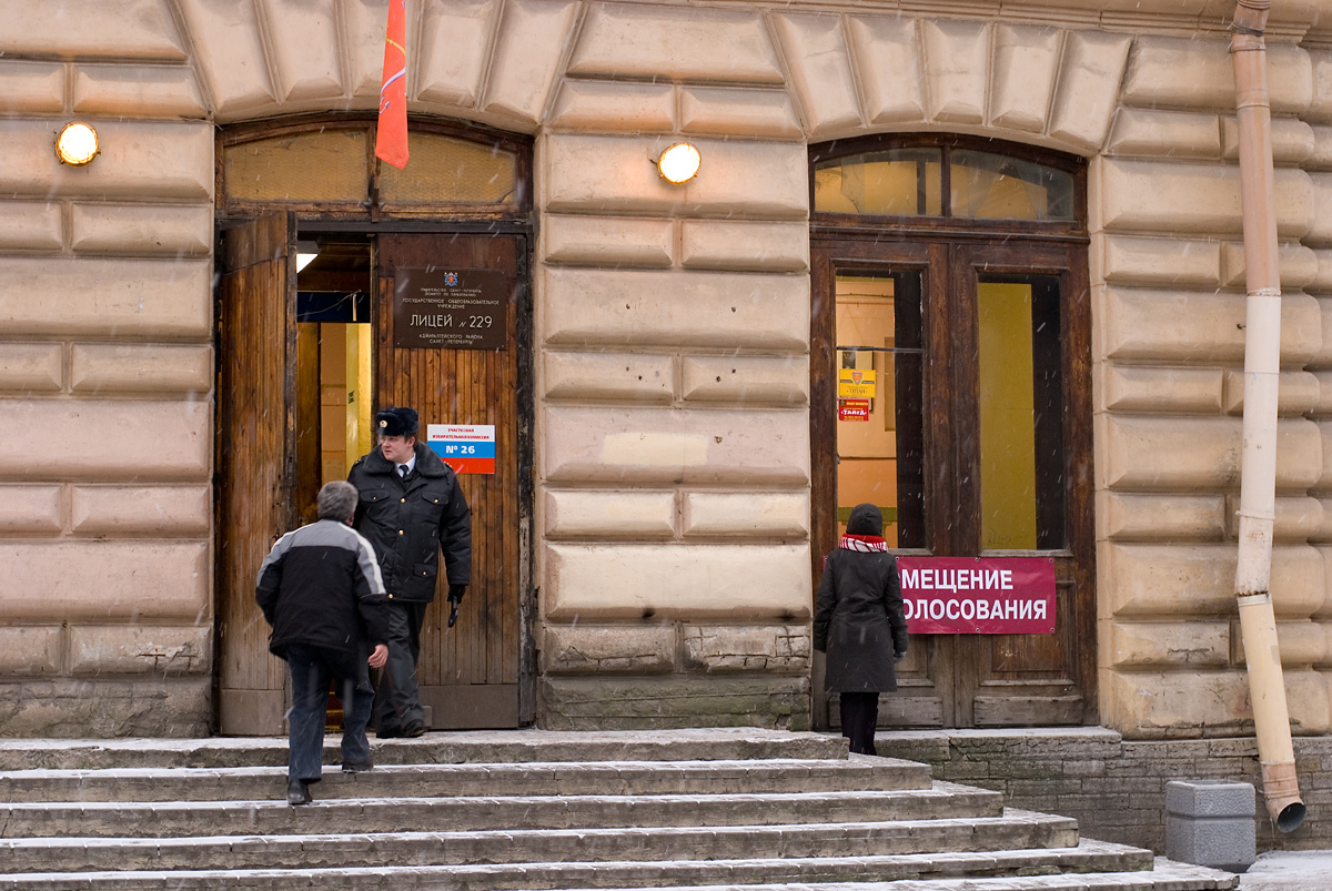 Russian Elections'2007, Sankt-Petersburg